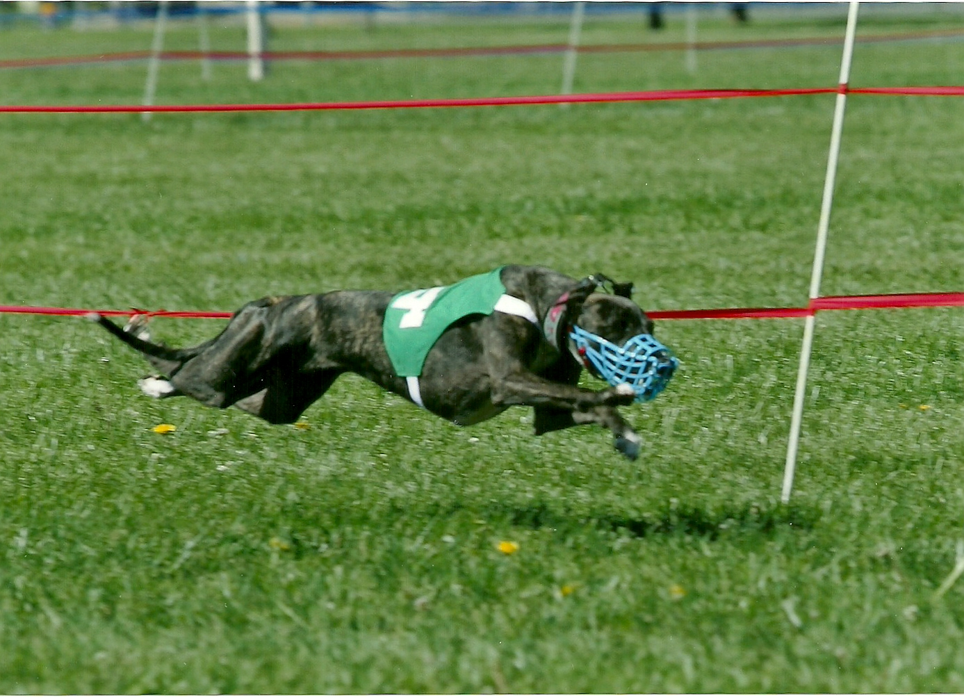 whippet racing